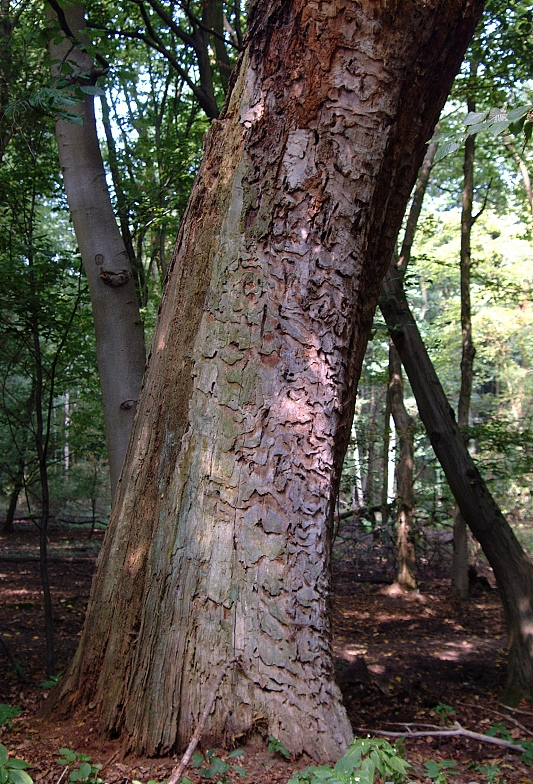 Dead oak tree with feeding traces of Cerambyx cerdo, Mörsfelden near Frankfurt (Germany)